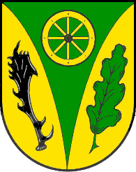 Coat of Arms of Binnen